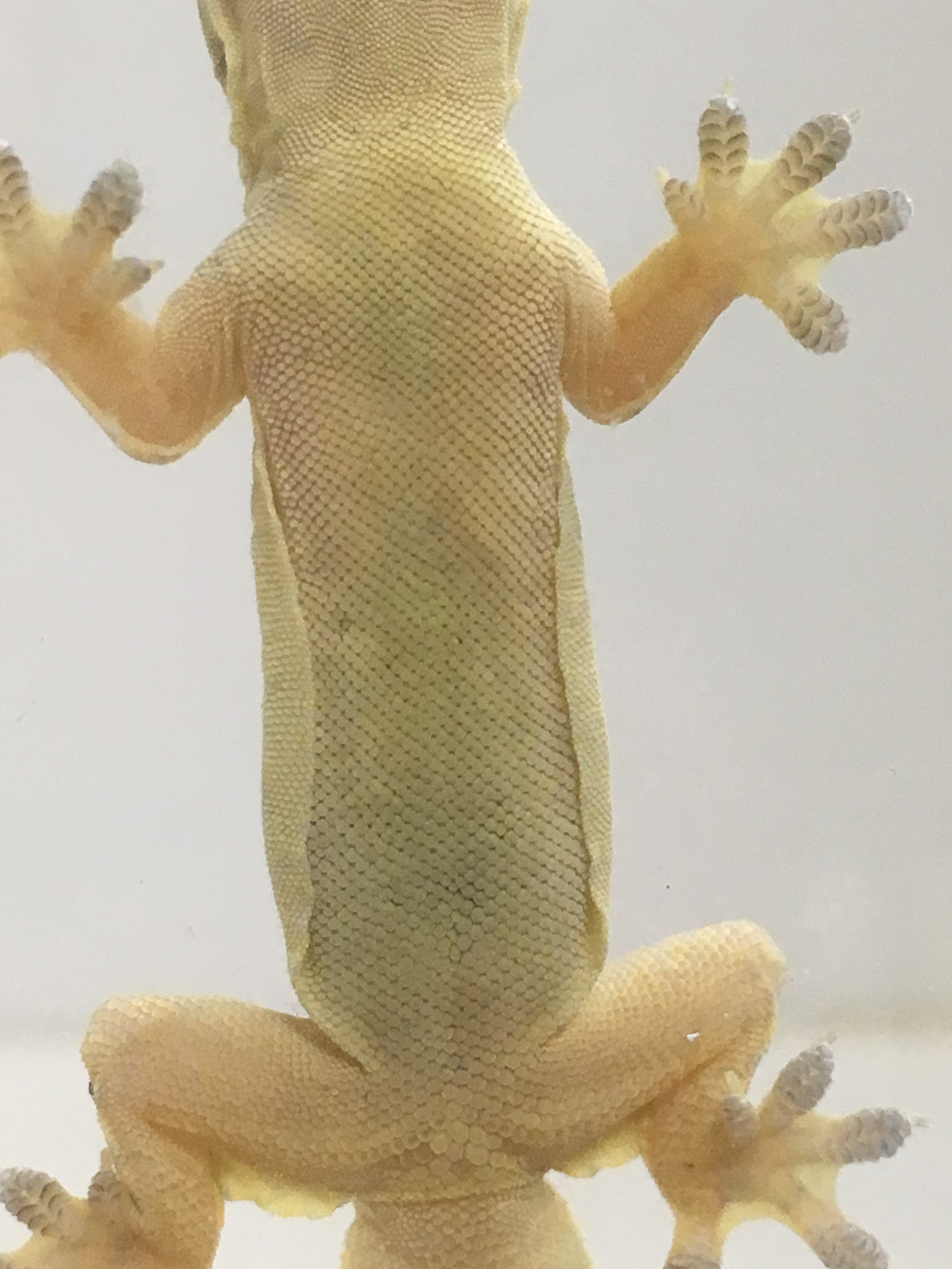 Underside of Hemidctylus platyurus showing webbed-toes and fringes